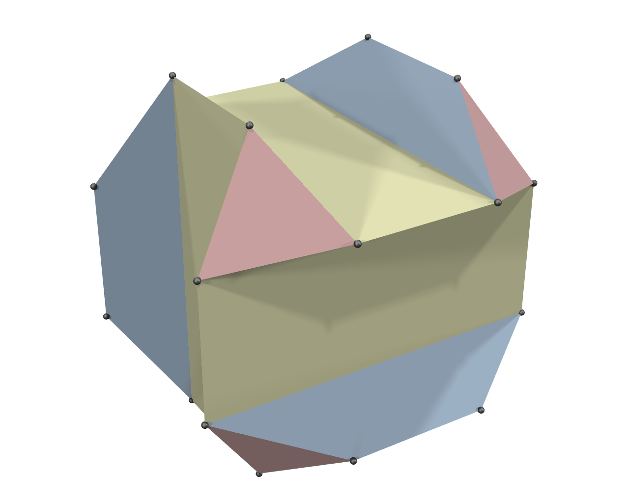 This simple, non-convex polyhedron is constructed so that none of its 24 vertices, marked with black balls, can be seen from a region around its center. This counterexample shows that placing observers at each vertex is not a solution to the 3-dimensional generalization of the art gallery problem. The blue faces are also not visible from the center.